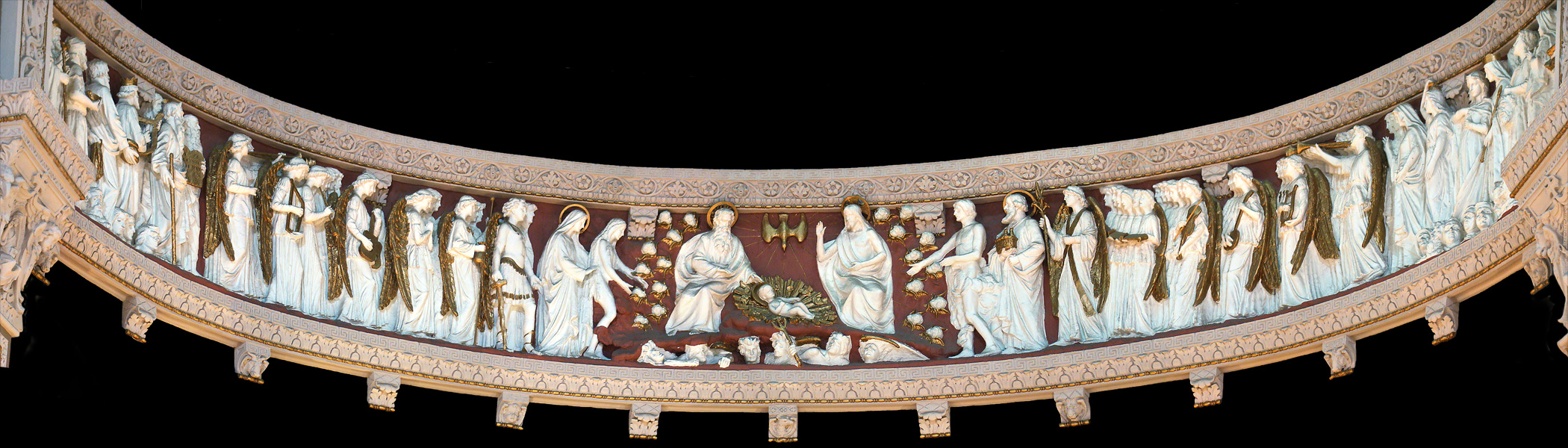 Church of Nativité-de-la-Sainte-Vierge-d’Hochelaga, Montreal, Quebec, Canada. The monumental frieze over the choir.